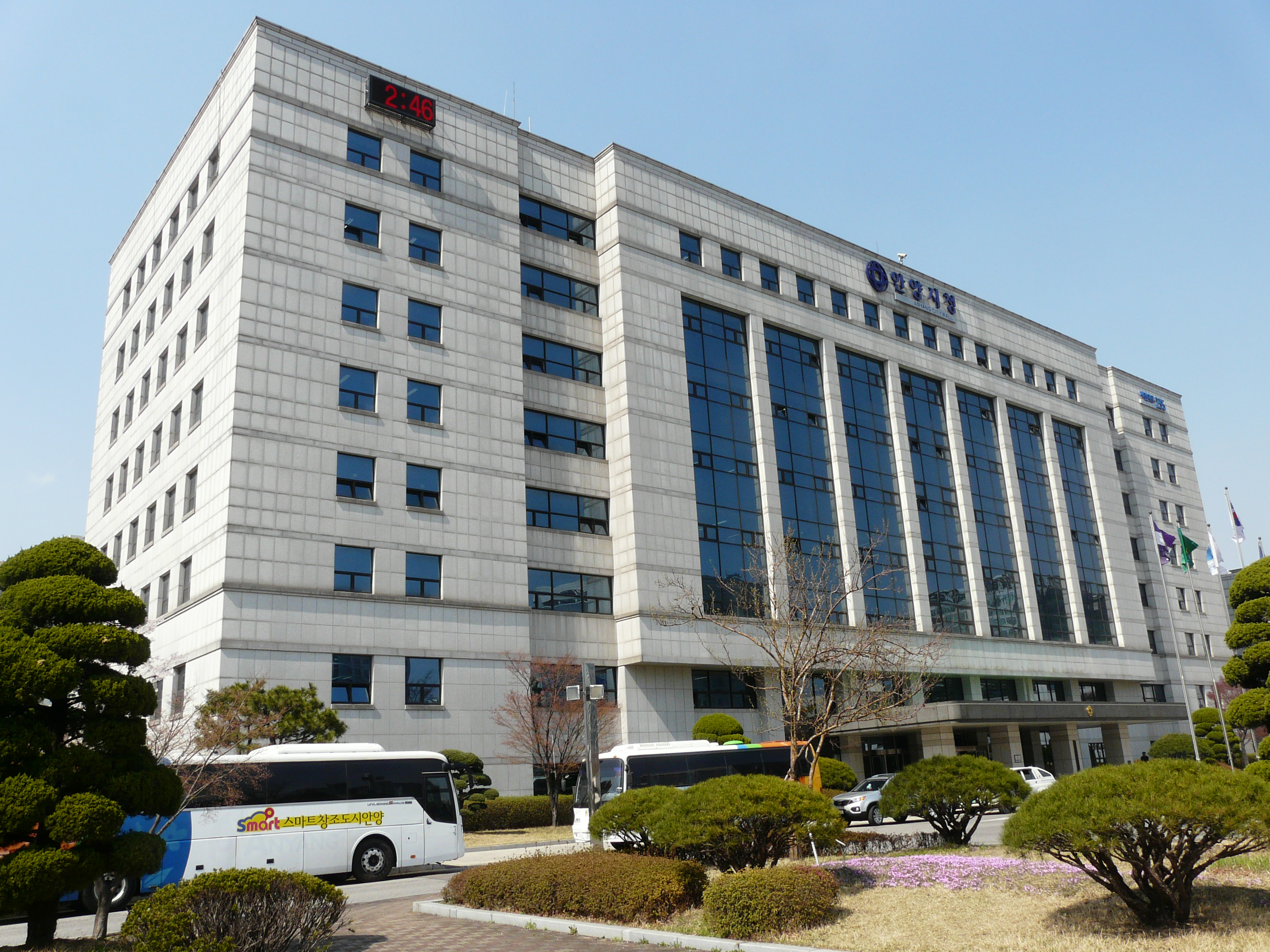 Photos from the city of Anyang, Korea.